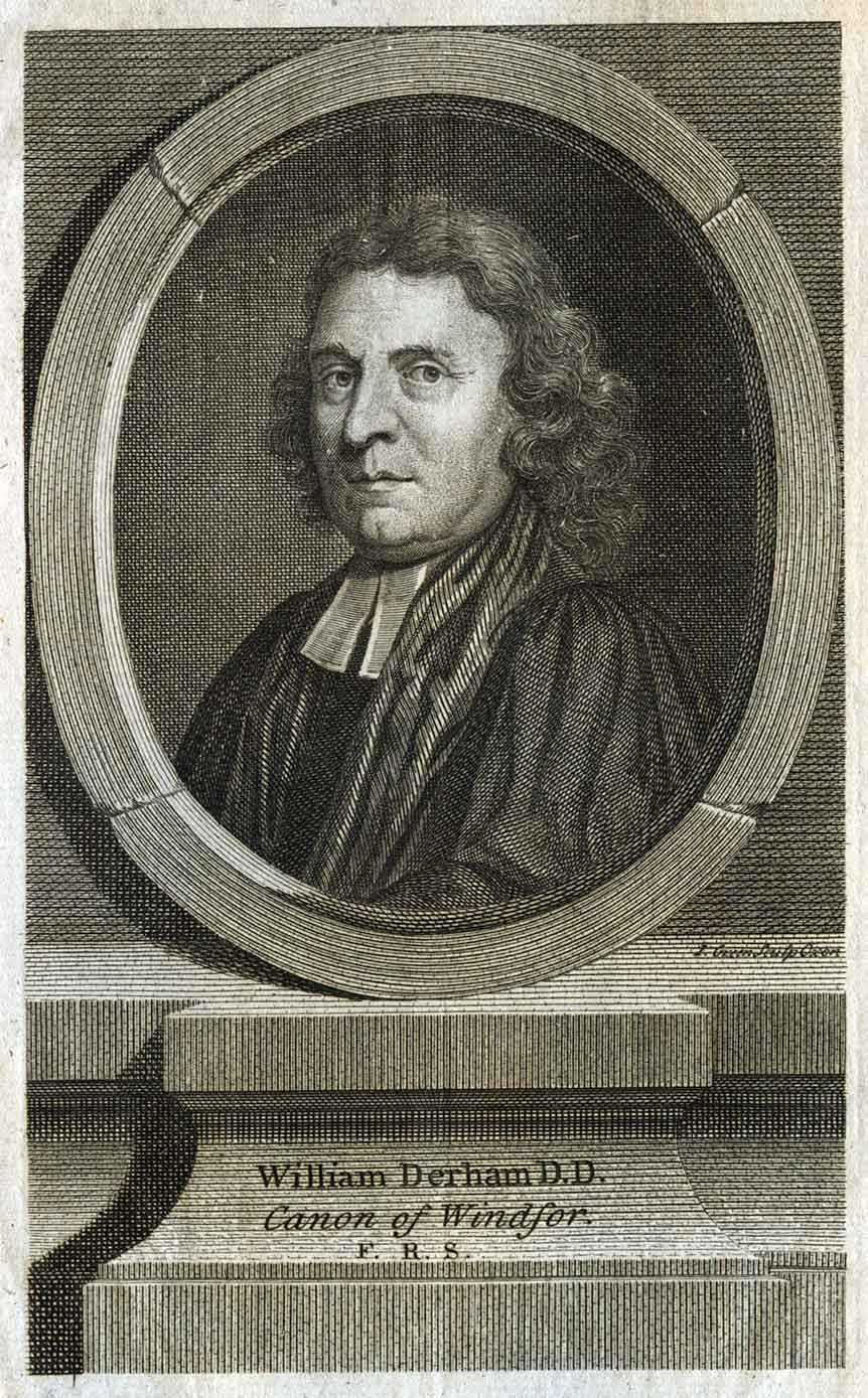 Tableau of William Derham (1657 – 1735), an English clergyman and natural philosopher.